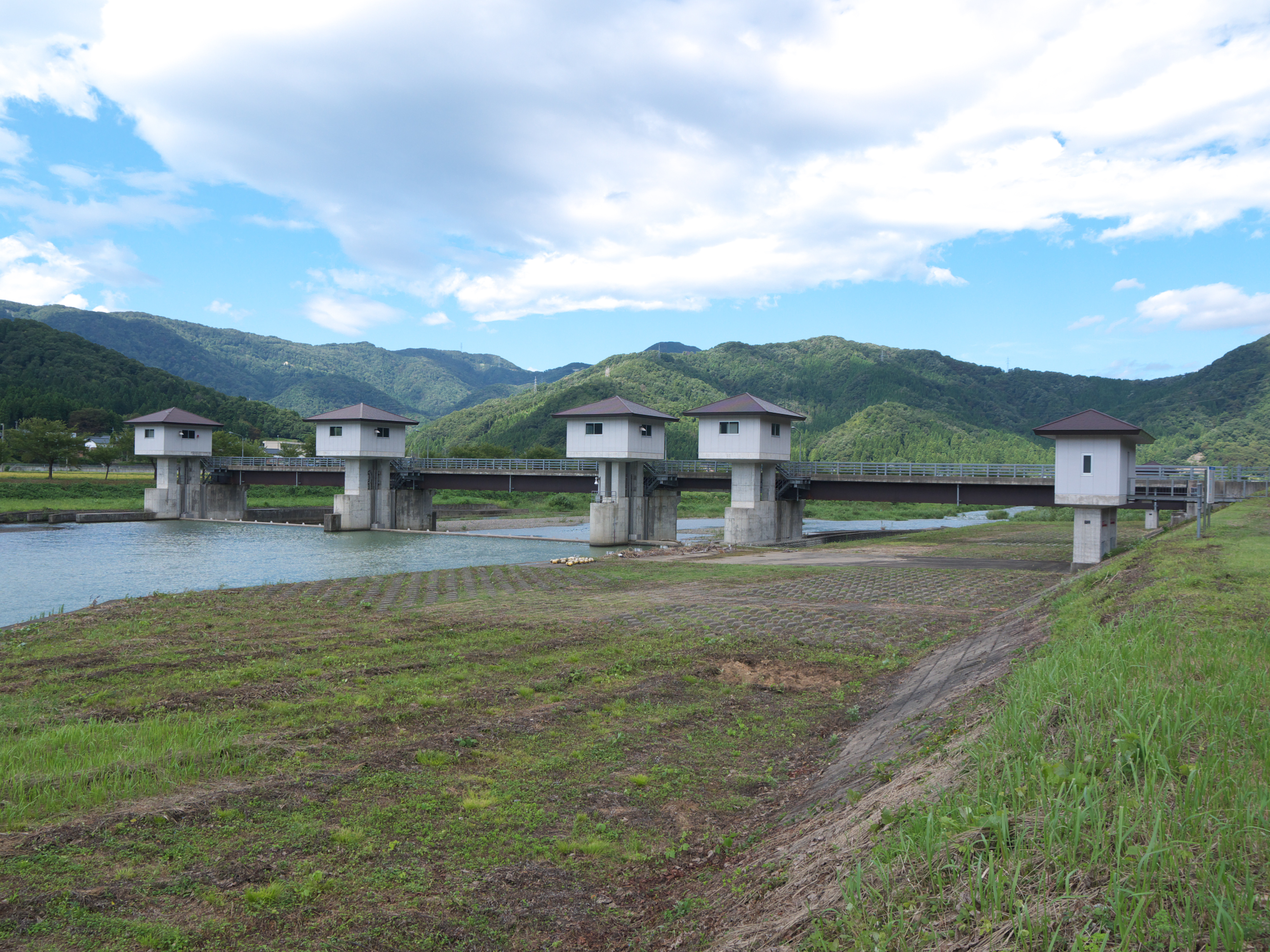 Yaotome Head Works